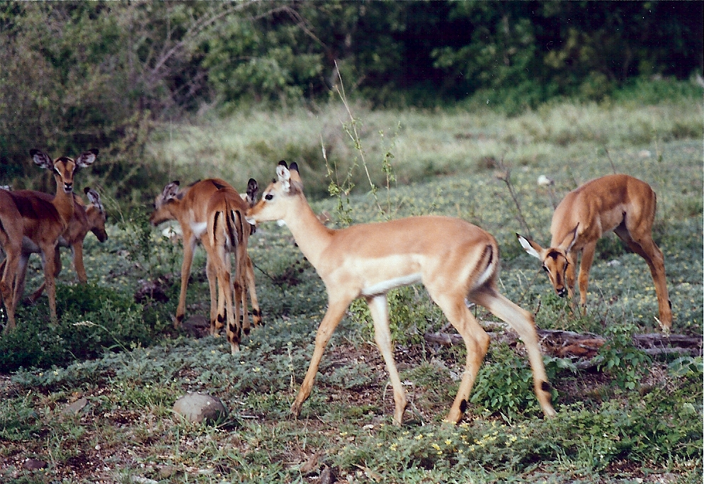 Impala fawns, early evening, Kruger National Park, South Africa. These impala were in a mixed herd with wildebeest, who also had young. Taken 1996 on film.